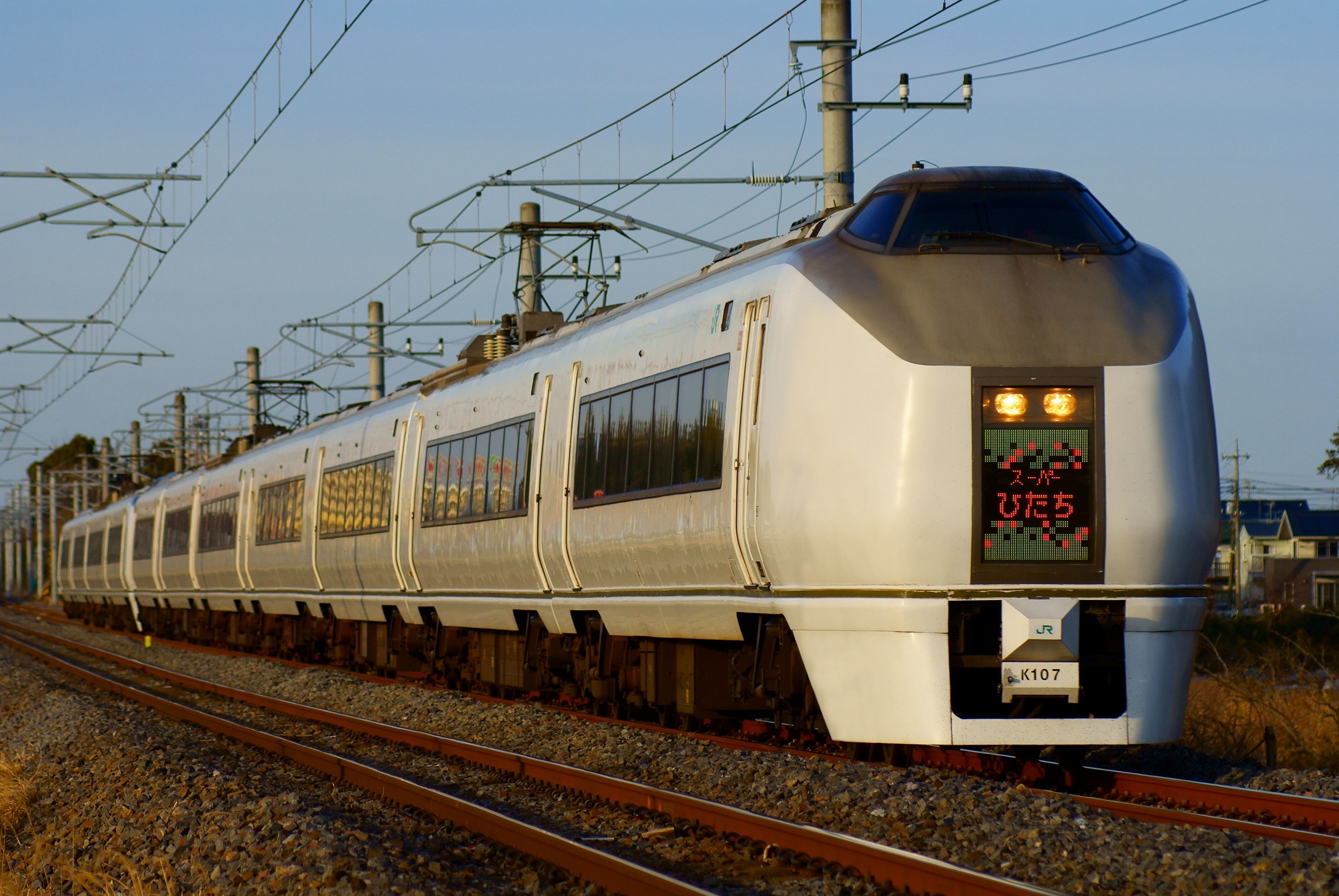 The last run of the Super-Hitachi (651 serise EMUs)